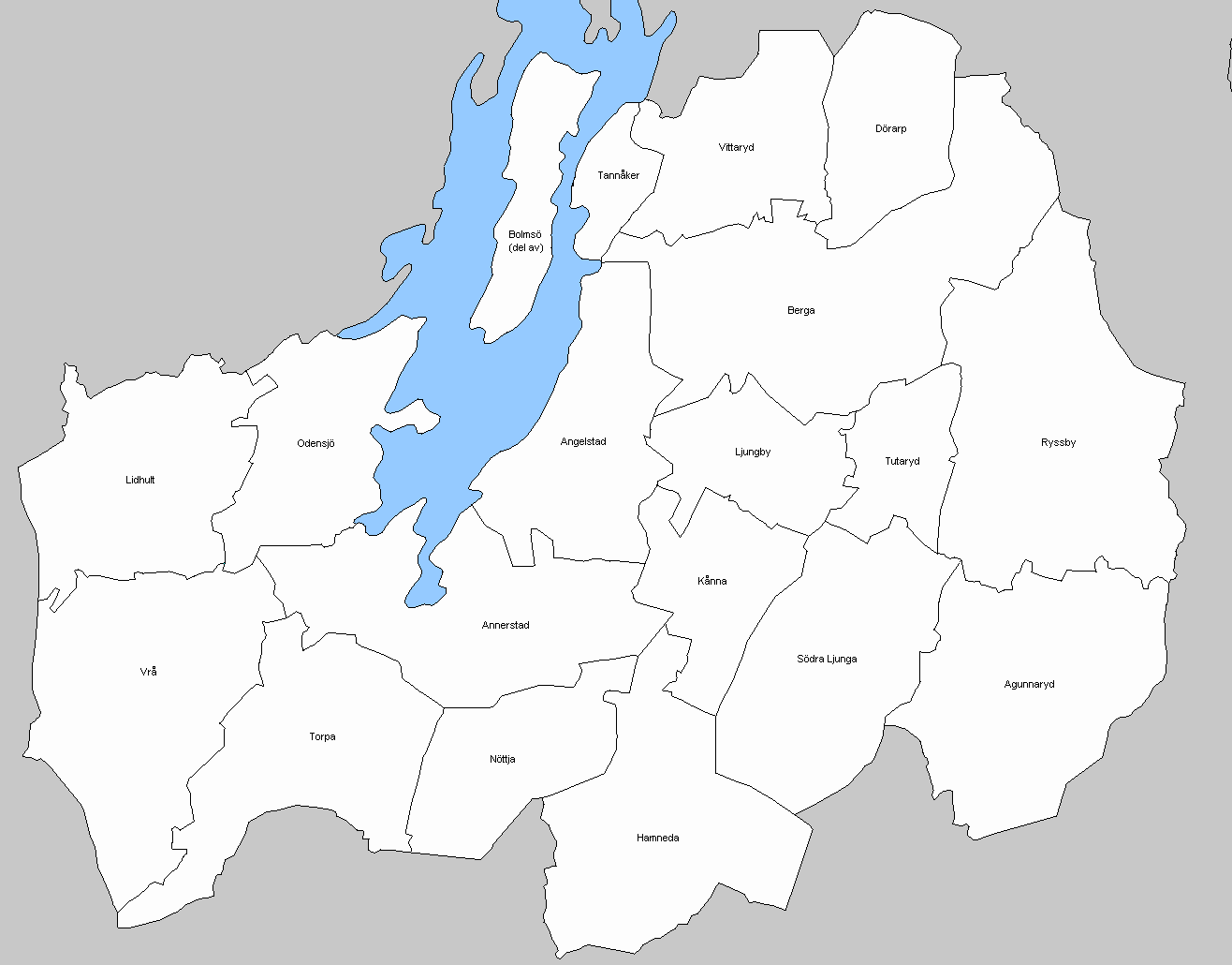 Parishes in Ljungby municipality